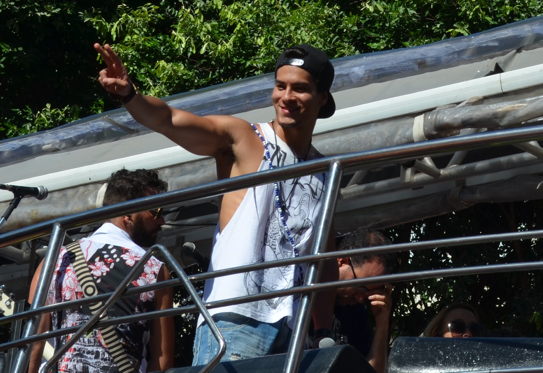 Arthur Aguiar at Carnival on March 2, 2014.